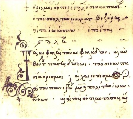 The surrender protocol (orismos) of Ioannina, Epirus, to the Ottoman empire, 9 Oct. 1430 (written in Greek).